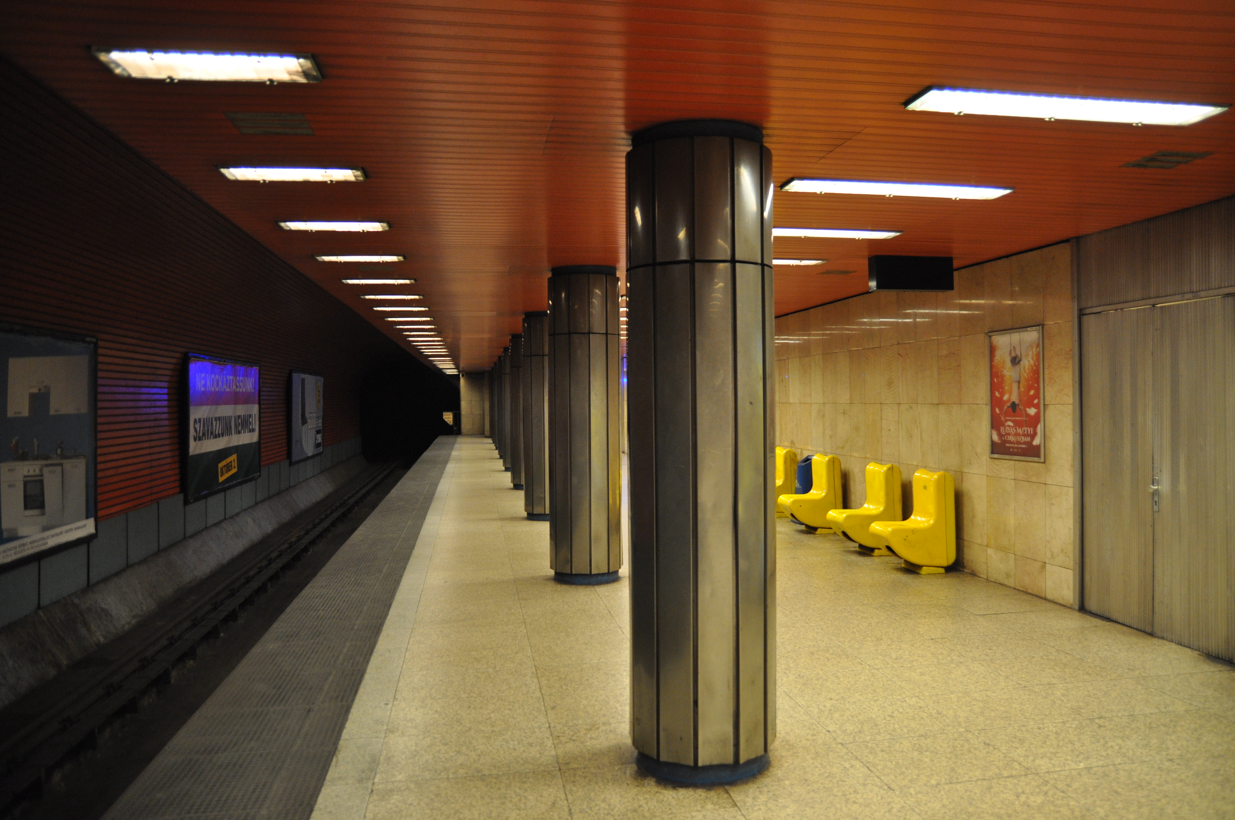 Budapest, metró 3, Ferenciek tere